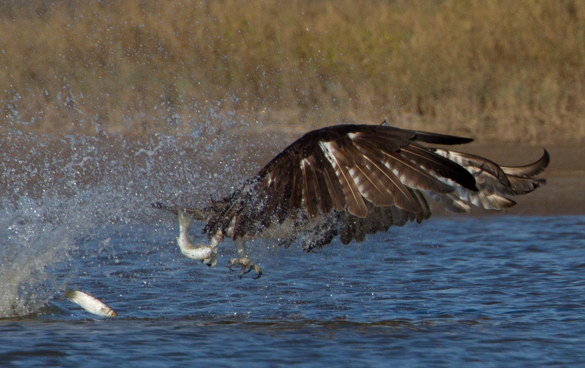 Osprey feeding on Mullet in Quintana, TX